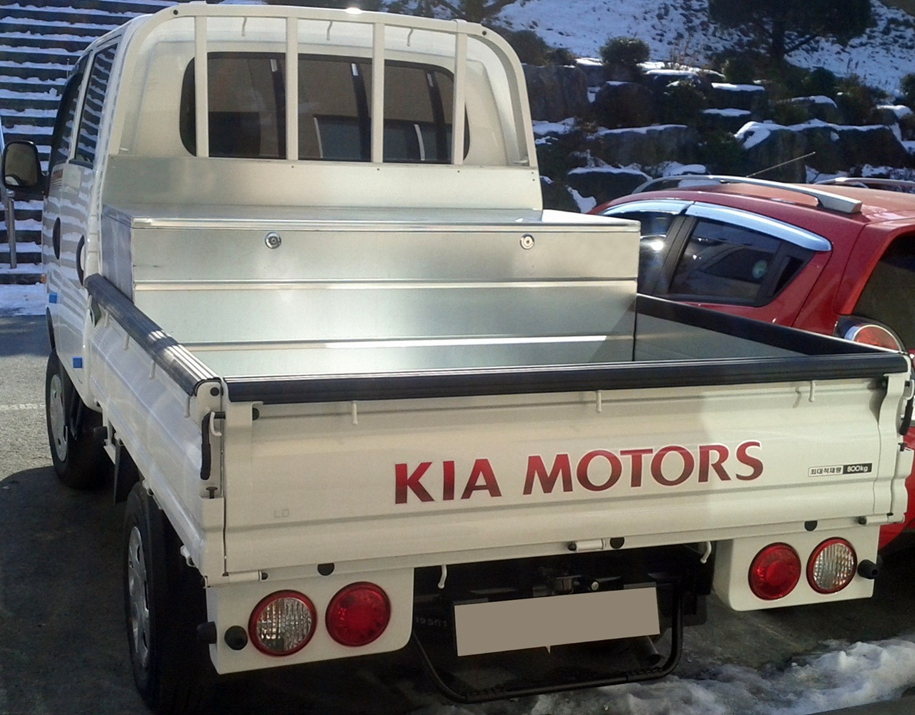 Kia Bongo3